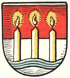 Coat of arms of Berlin-Lichterfelde